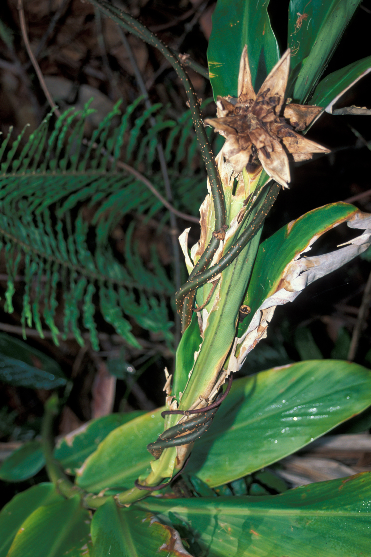 Derris elliptica (strangling habit). Location: Maui, Hana Hwy